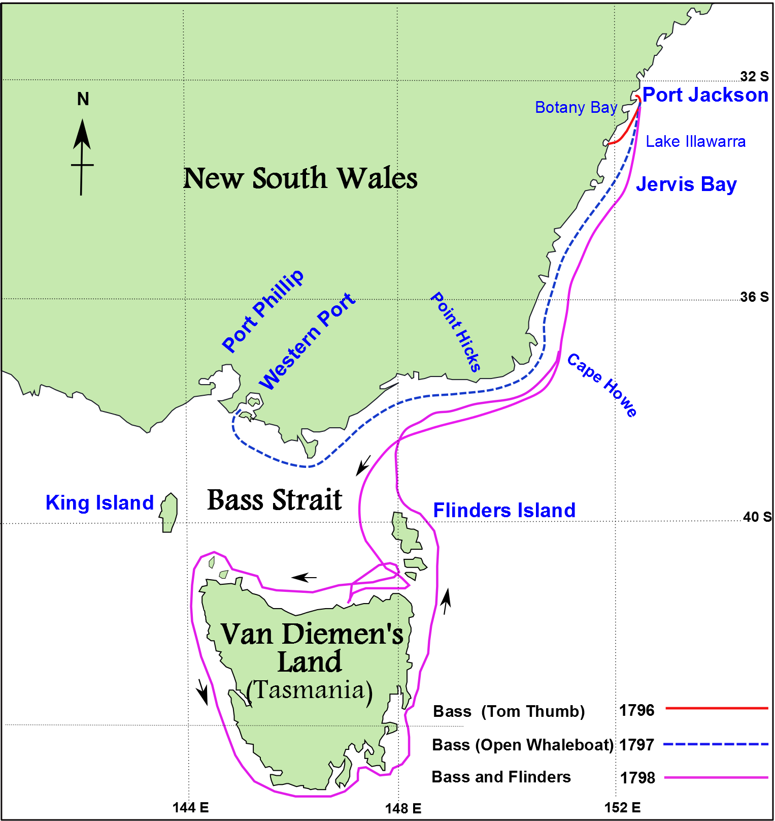 Map of the exploration voyages of George Bass, and the circumnavigation of Tasmania with Matthew Flinders. Drawn using Inkscape. Adapted from diagrams in Australian Navigators by Robert Tiley ISBN 0-7318-1118-6